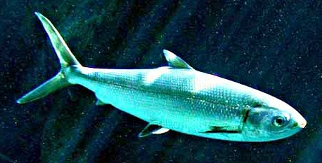 Milkfish (Chanos chanos). Tagalog: Bangus (Chanos chanos).